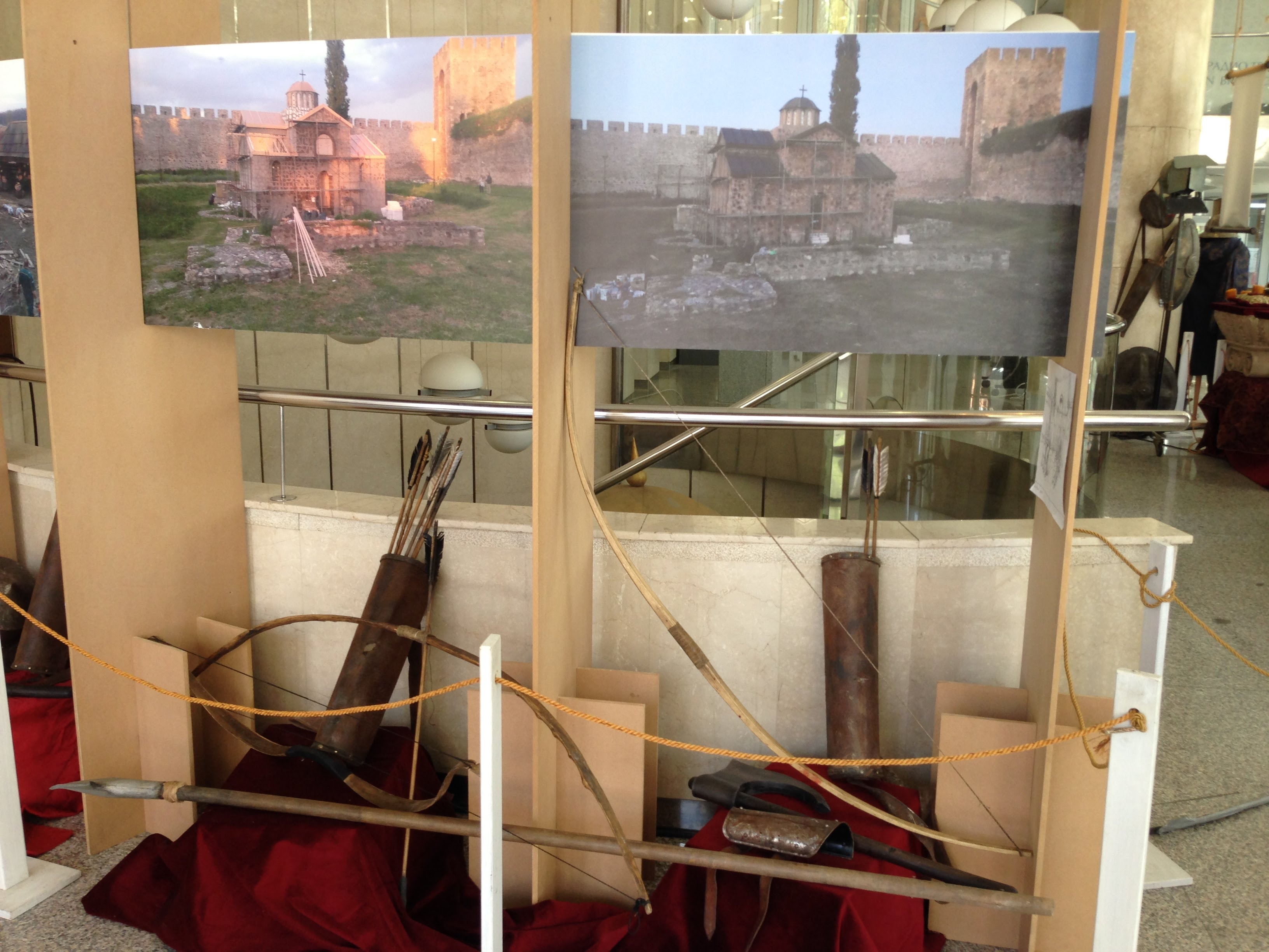 Scenography and weapons for the Nemanjić series - The Birth of the Kingdom, 2018. RTS Serbia